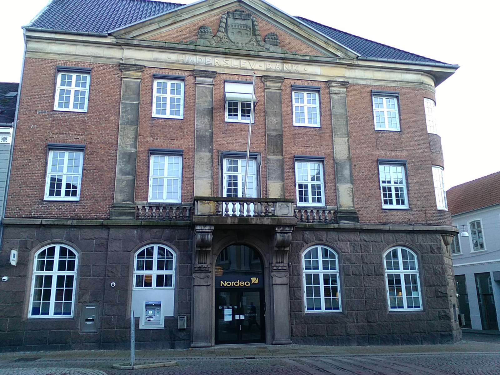 Building of the Haderslev Bank in the town Haderslev, Nørregade (North Street), Region South Denmark, Denmark (today: Nordea Bank)